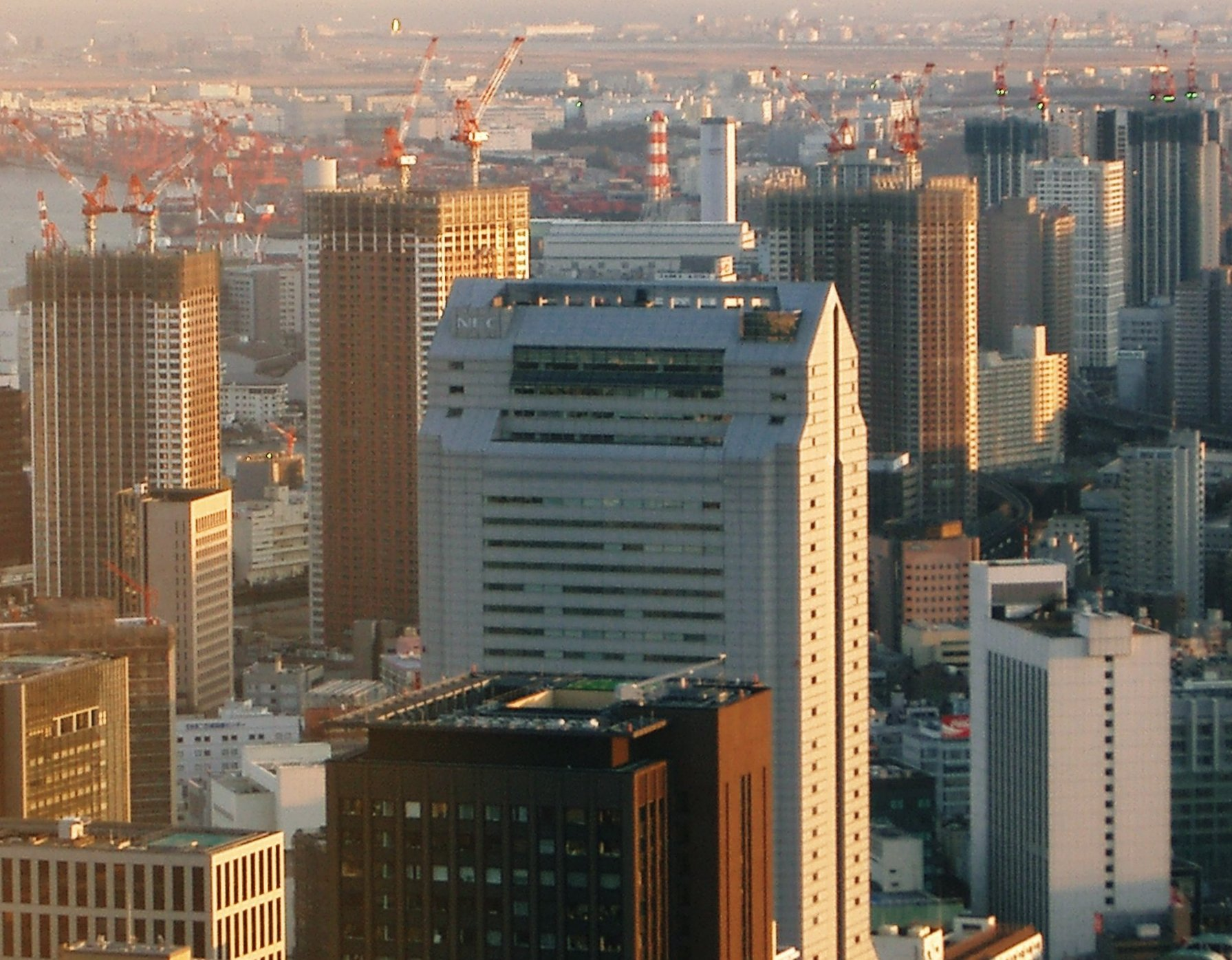 Shibaura Island, the high-rise residental development project at Shibaura (芝浦). The blue building is NEC's.